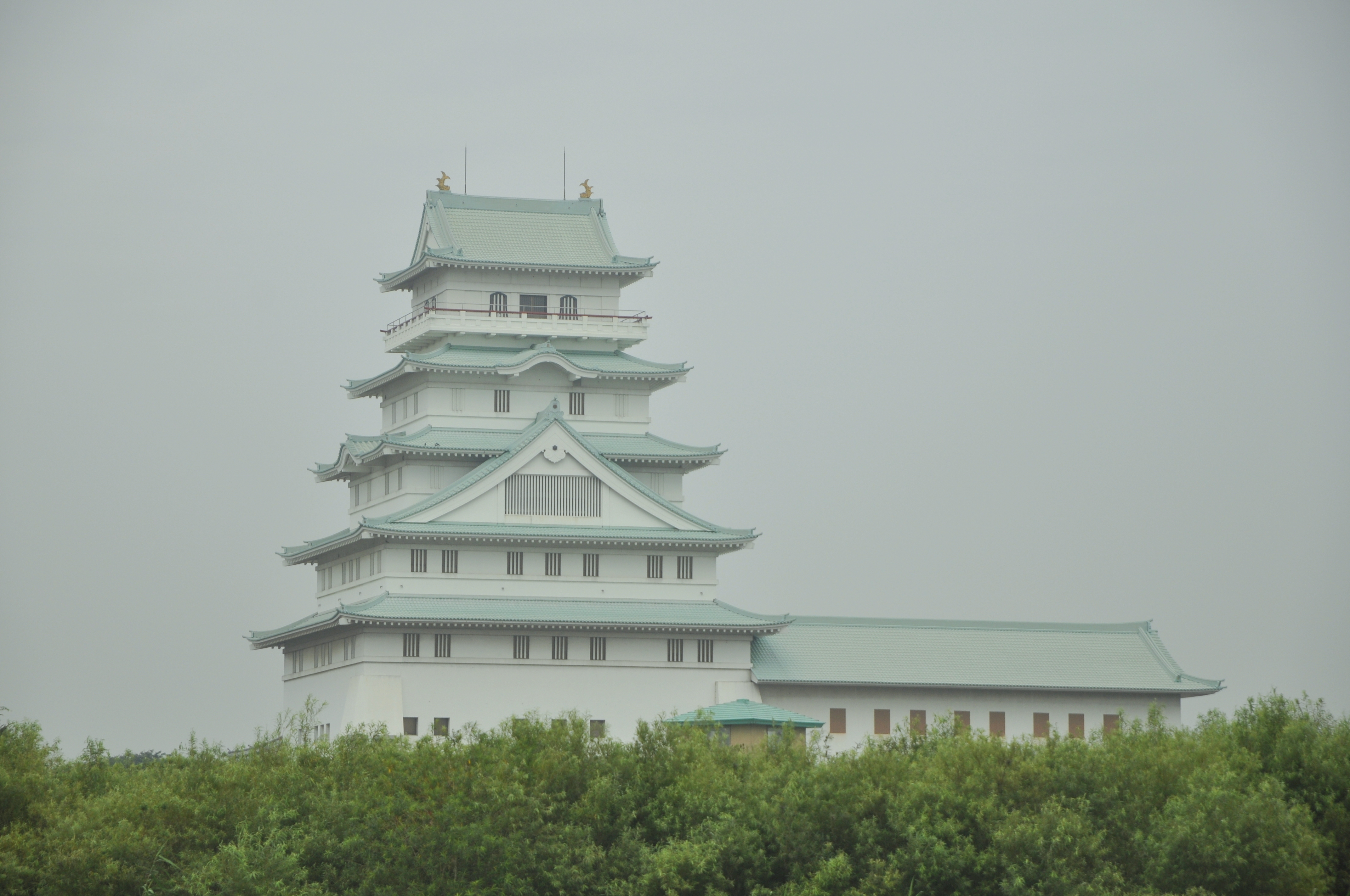 Joso City Regional Exchange Center (Toyoda Castle)